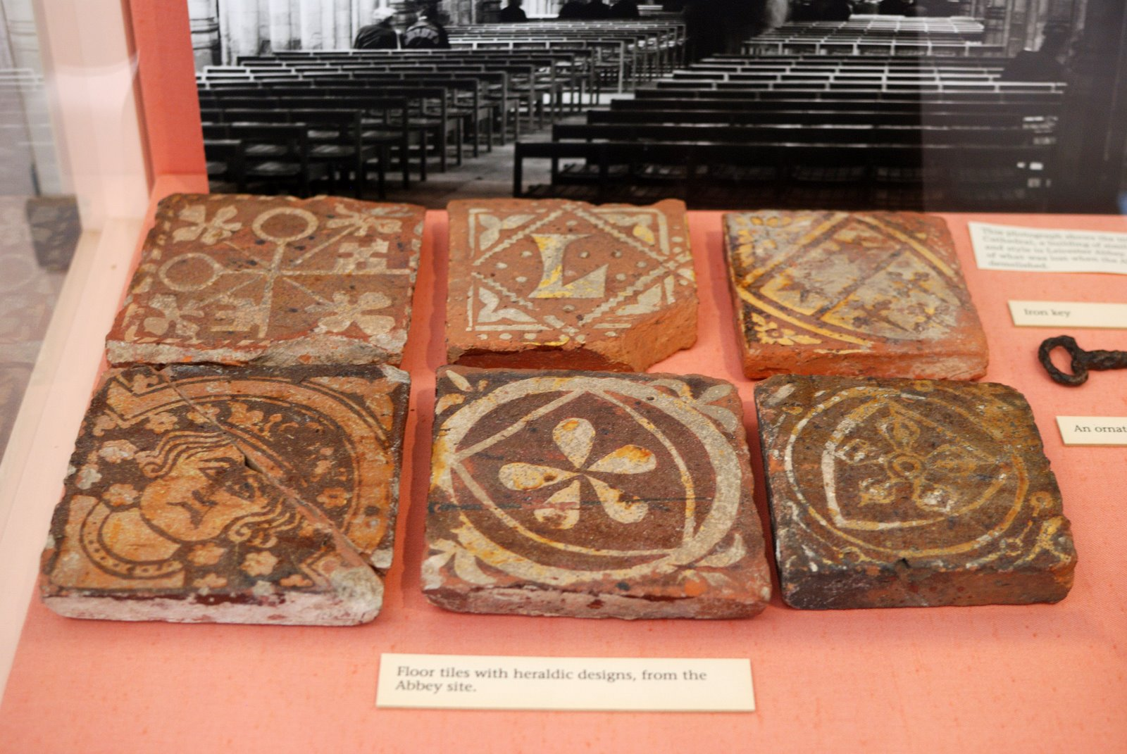 Tiles from Leicester Abbey, in the Jewry Wall Museum, Leicester